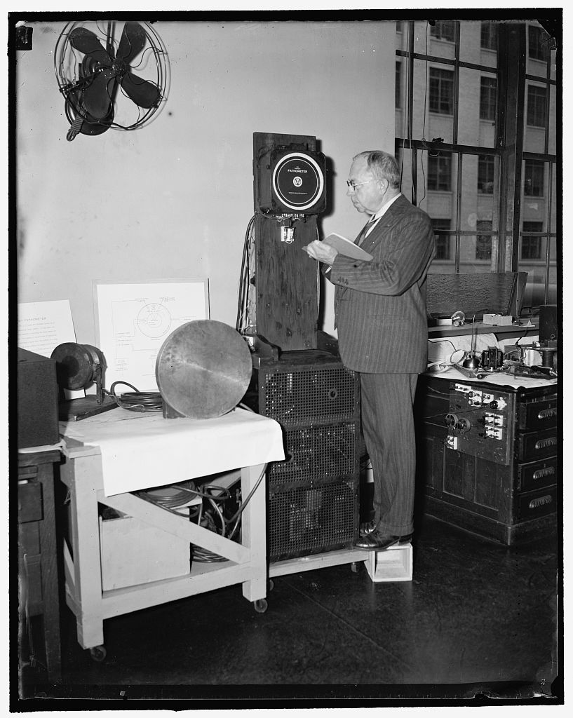 Herbert Grove Dorsey with his fathometer invention